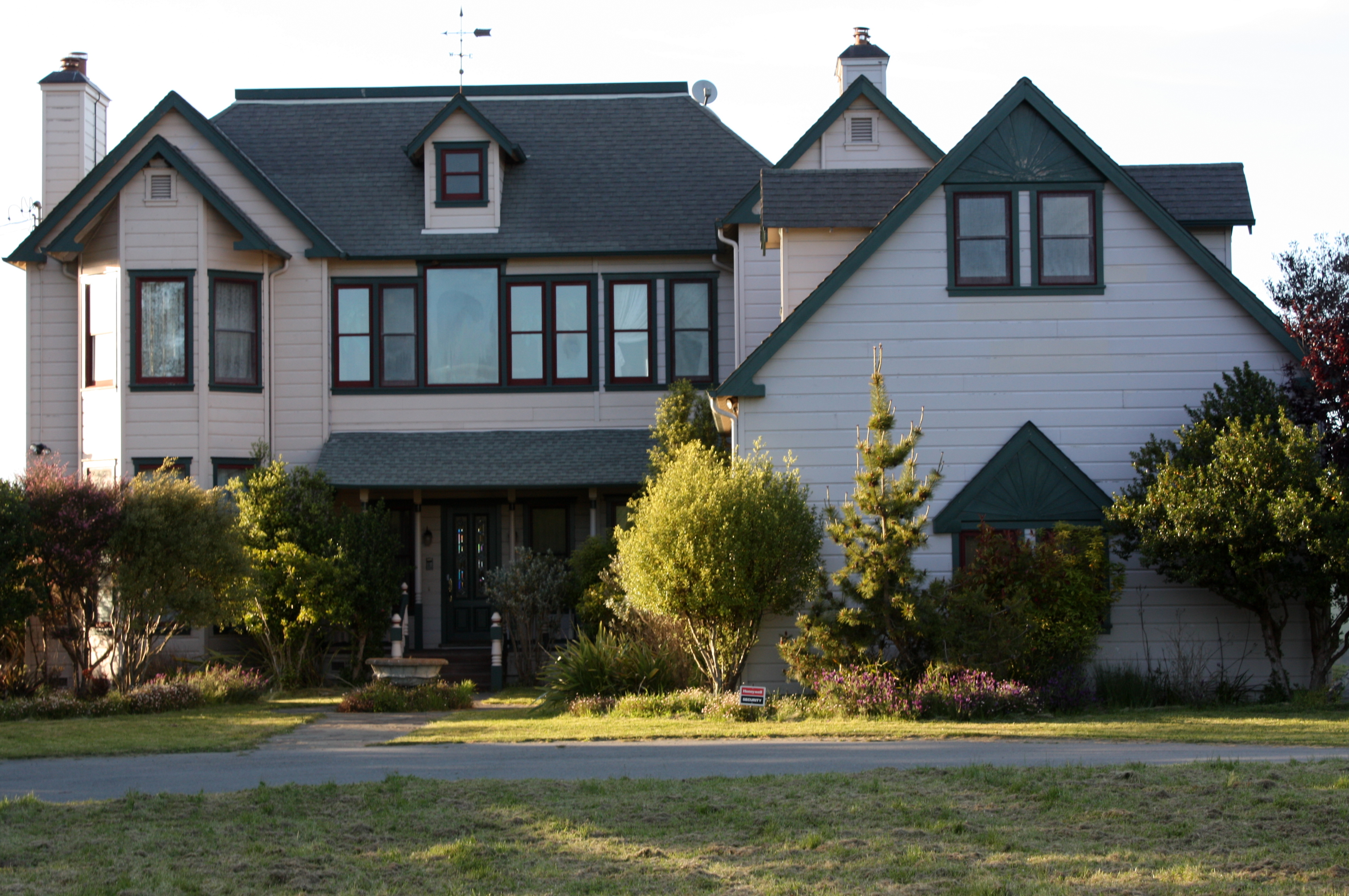 House used by the character Stu Macher (Matthew Lillard) in Scream. Used in the entire 40 minute finale of the film. Located on Tomales Road, east of Tomales Bay.